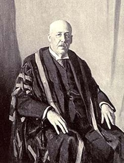 This is a reproduction of a portrait painting of James Barrett (1862-1945) created possibly around the 1930s. (Possibly an official portrait painting as office-bearer of the University of Melbourne circa 1931-1939 or the portrait by Charles Wheeler (1881-1977) unveiled in 1939.)